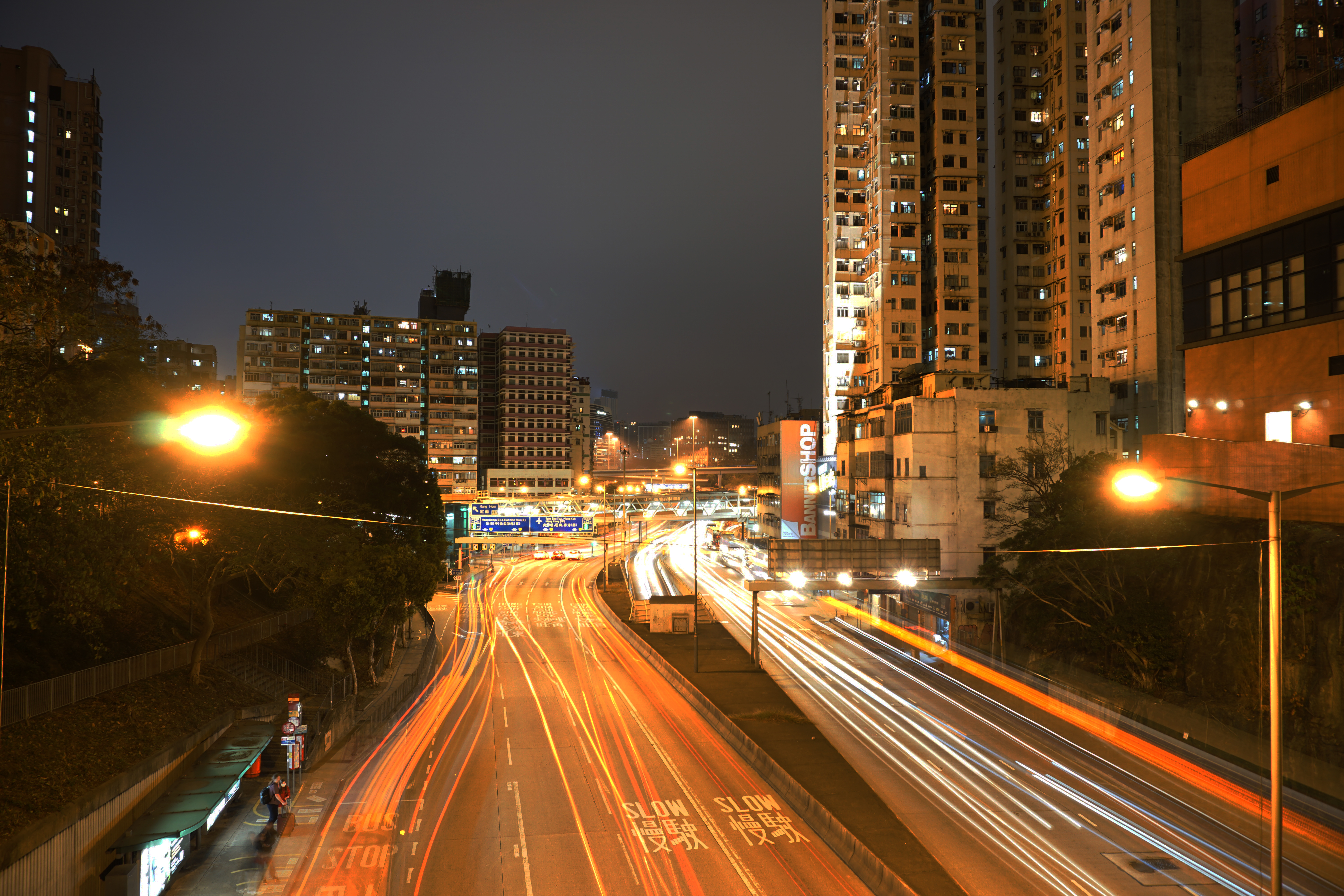 Chatham Road North in Hung Hom, Hong Kong.